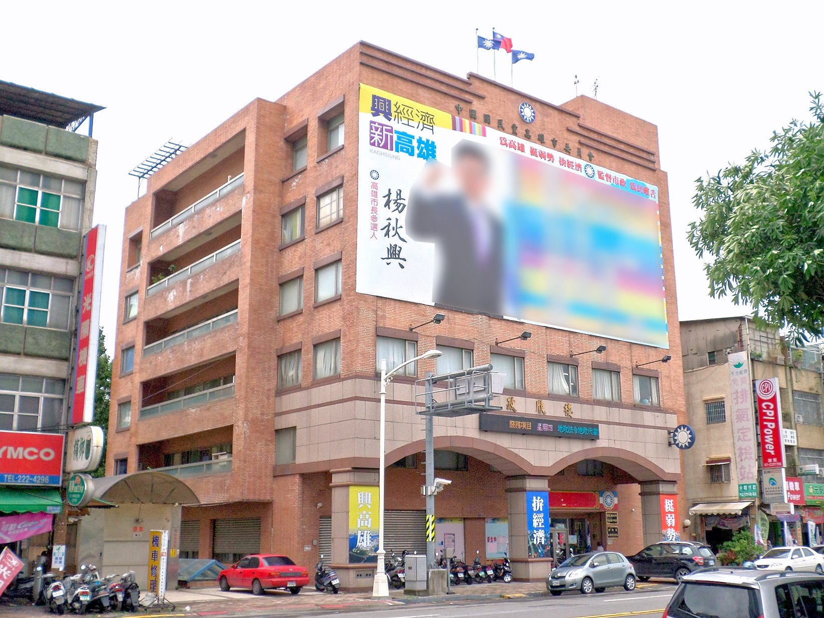 Kuomintang Kaohsiung City Headquarters Office, Sanmin District, Kaohsiung City, Taiwan